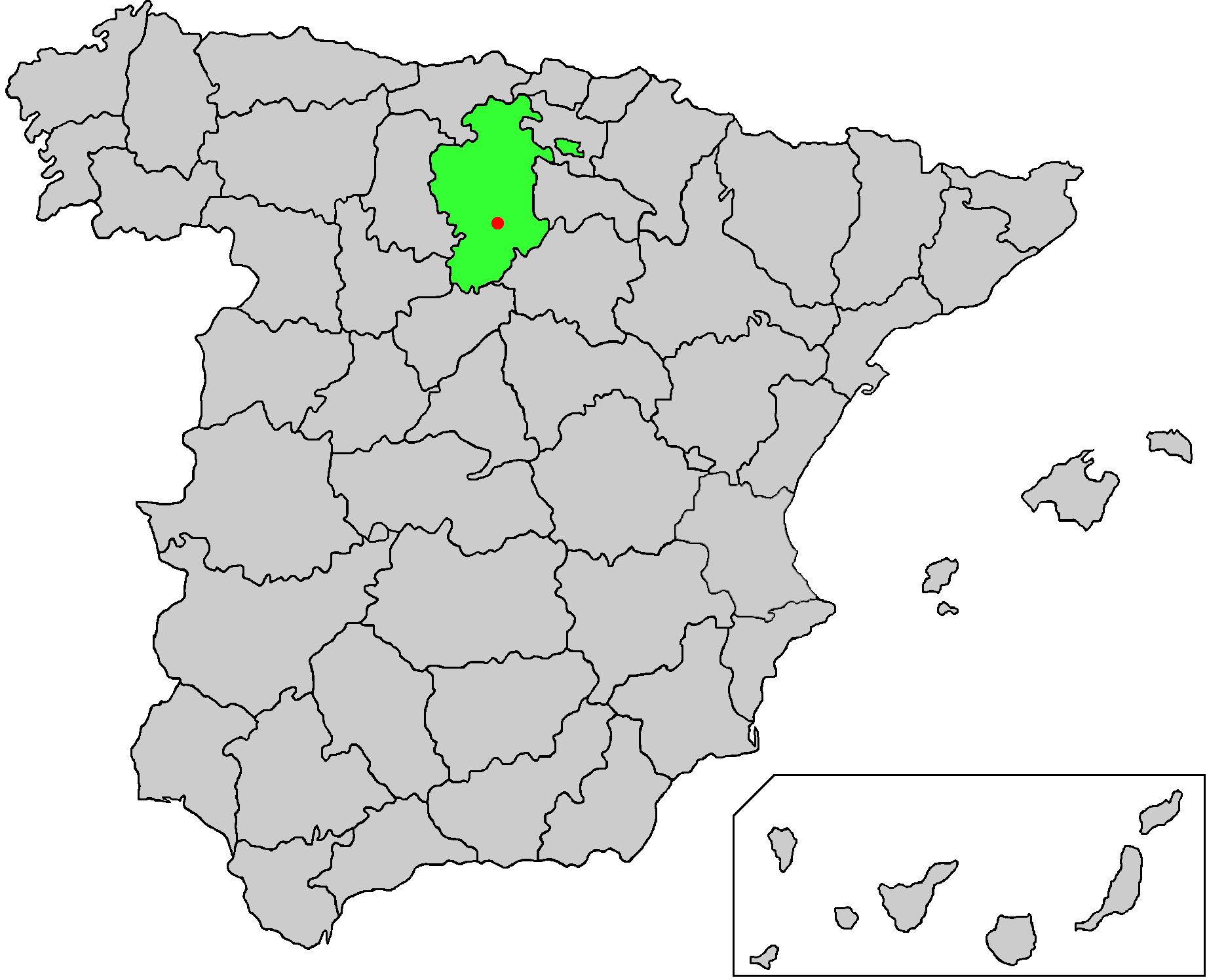 Map of Spain with the province of Burgos highlighted and the location of the town of Covarrubias indicated. Created by Mark Somoza